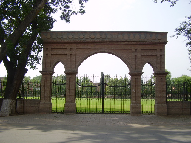 Stylish gate of Islamia college